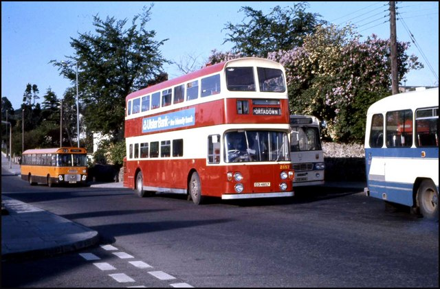 A borrowed bus in Banbridge Citybus and Ulsterbus are two distinct companies operating in Belfast and rest of NI respectively. In the 70’s, when many vehicles were destroyed by bombs or riots, buses were borrowed from one fleet to cover the short-term needs of the other. In this case a Citybus double-decker is departing Newry Street, Banbridge for Portadown (service 62). Both places were well outside Citybus territory.